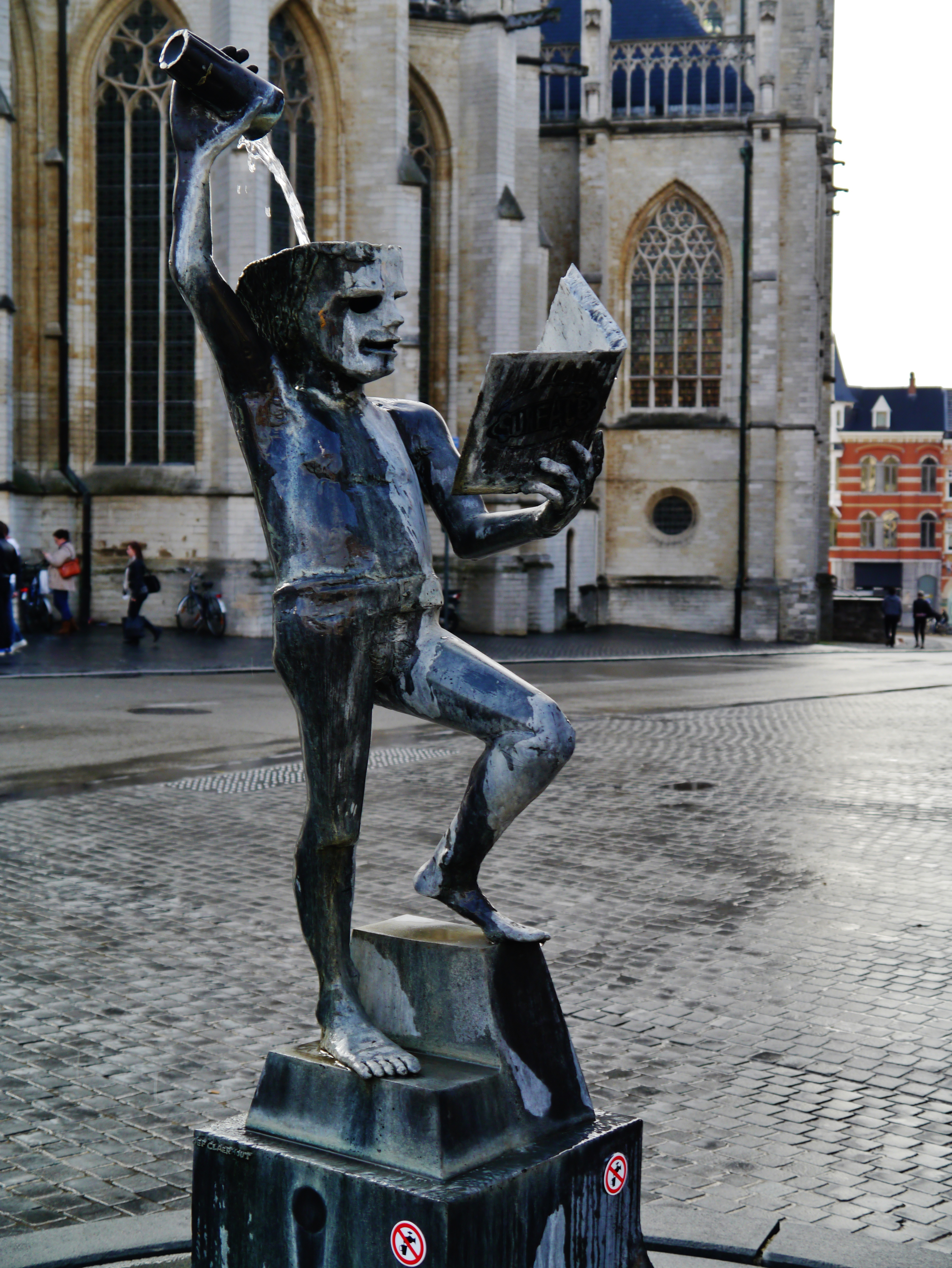 Fonks at Leuven, Province of Flemish Brabant, Flanders, Belgium